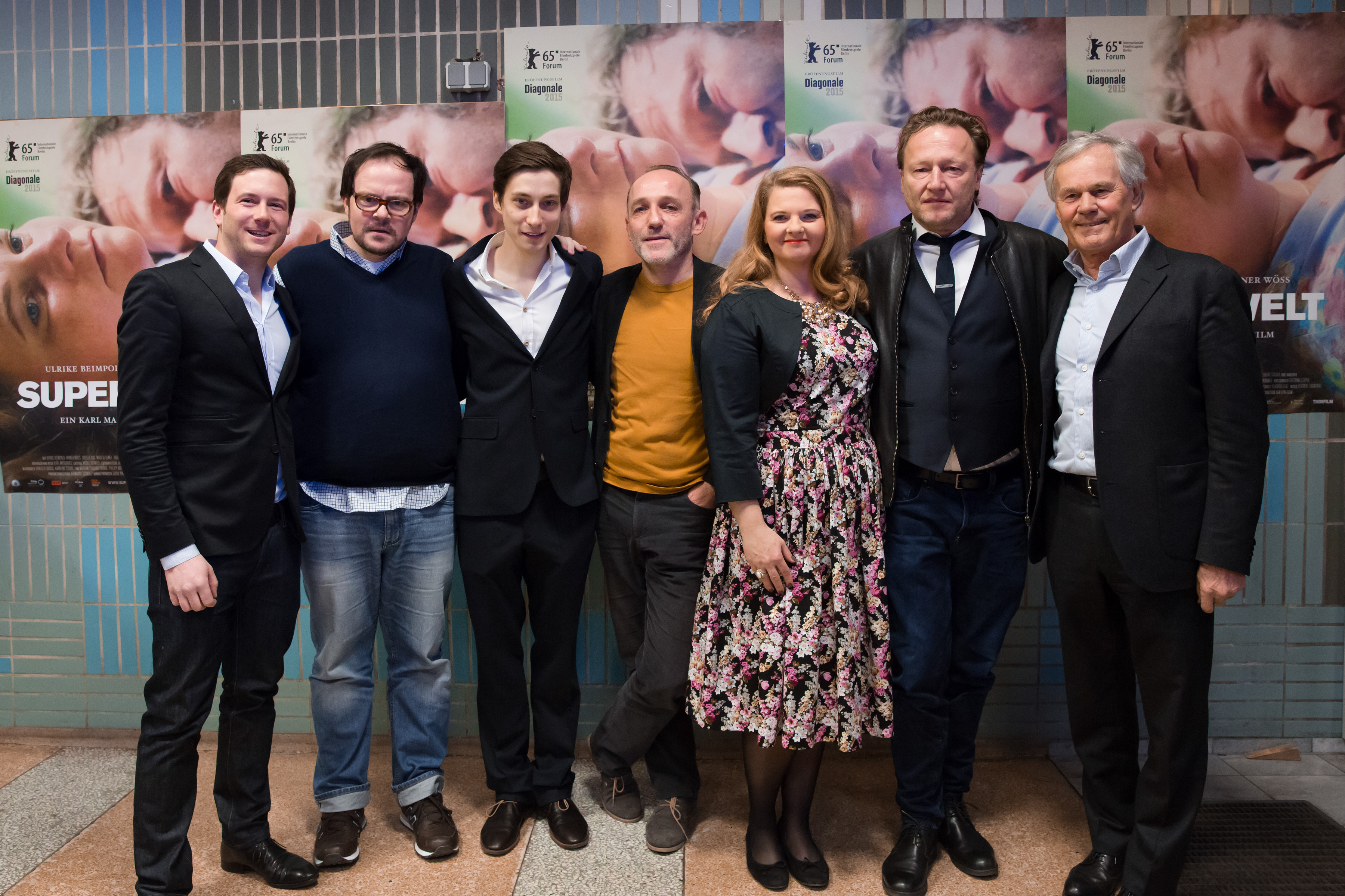 l.t.r.: Jakob Pochlatko, Thomas Mraz, Nikolai Gemel, Karl Markovics, Ulrike Beimpold, Rainer Wöss and Dieter Pochlatko at the Viennese premiere of Superwelt at Gartenbaukino in Vienna, Austria.